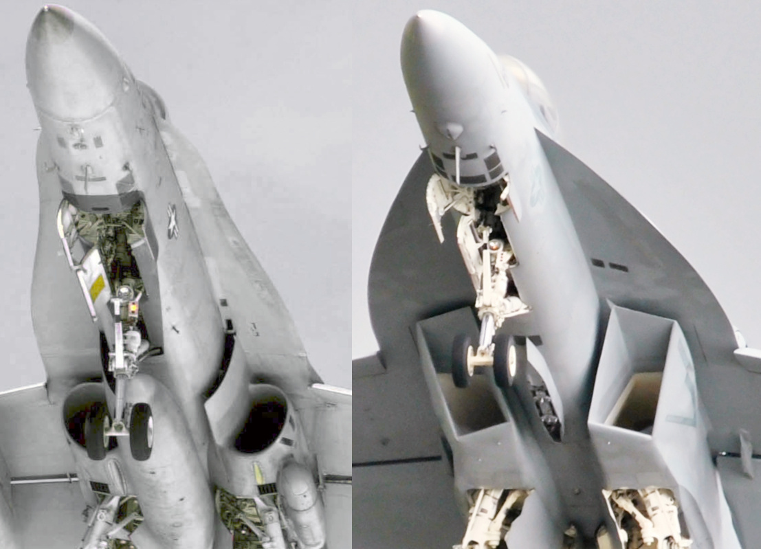 Comparison of intakes for Superhornet and Hornet